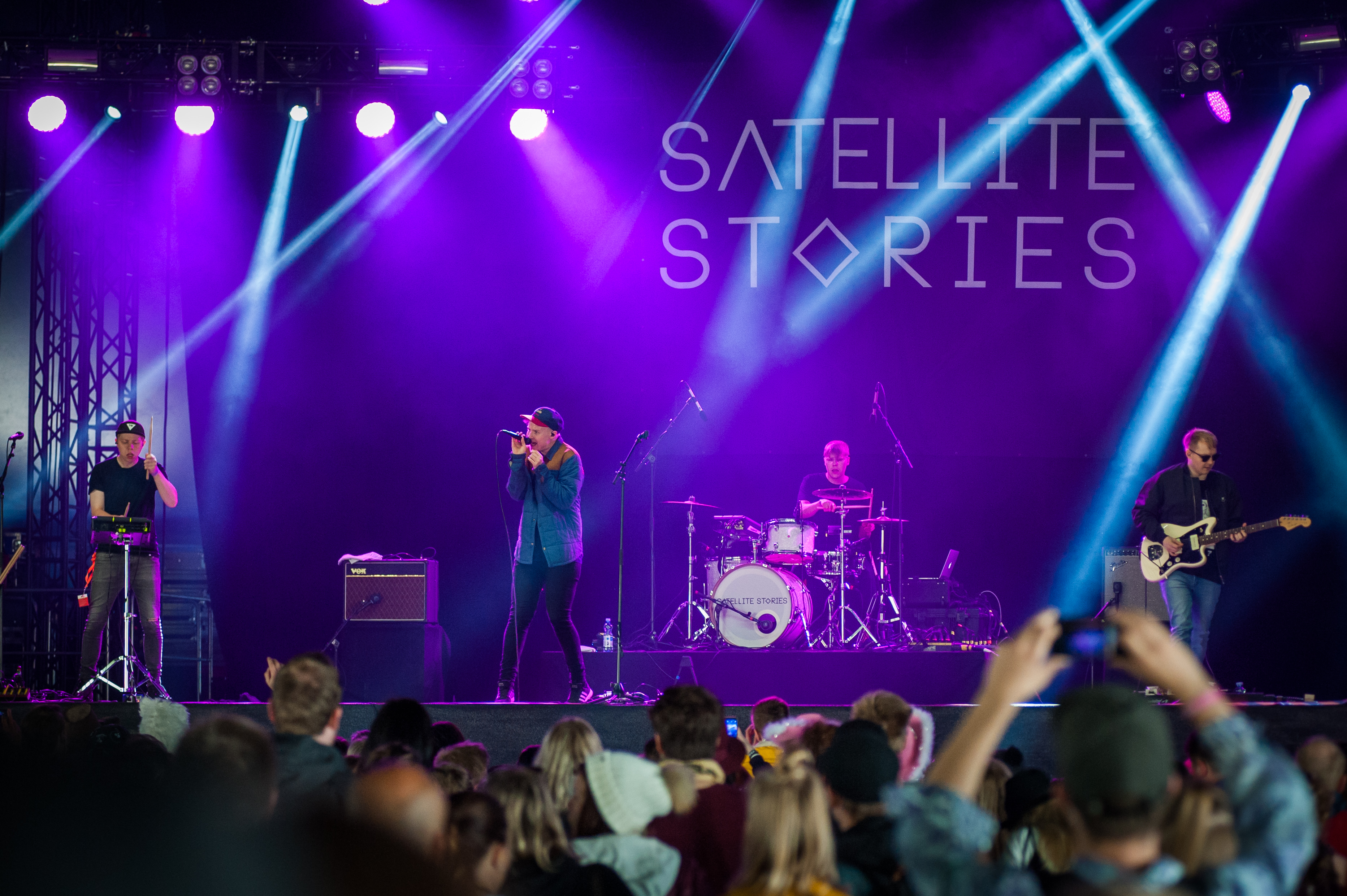 Finnish indie pop band Satellite Stories performing at the Ilosaarirock festival in Joensuu, Finland.